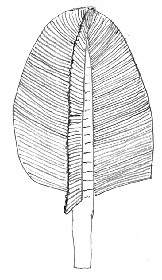 Drawing of Swartpuntia germsi, Ediacaran fossil, in the style of Guy Narbonne